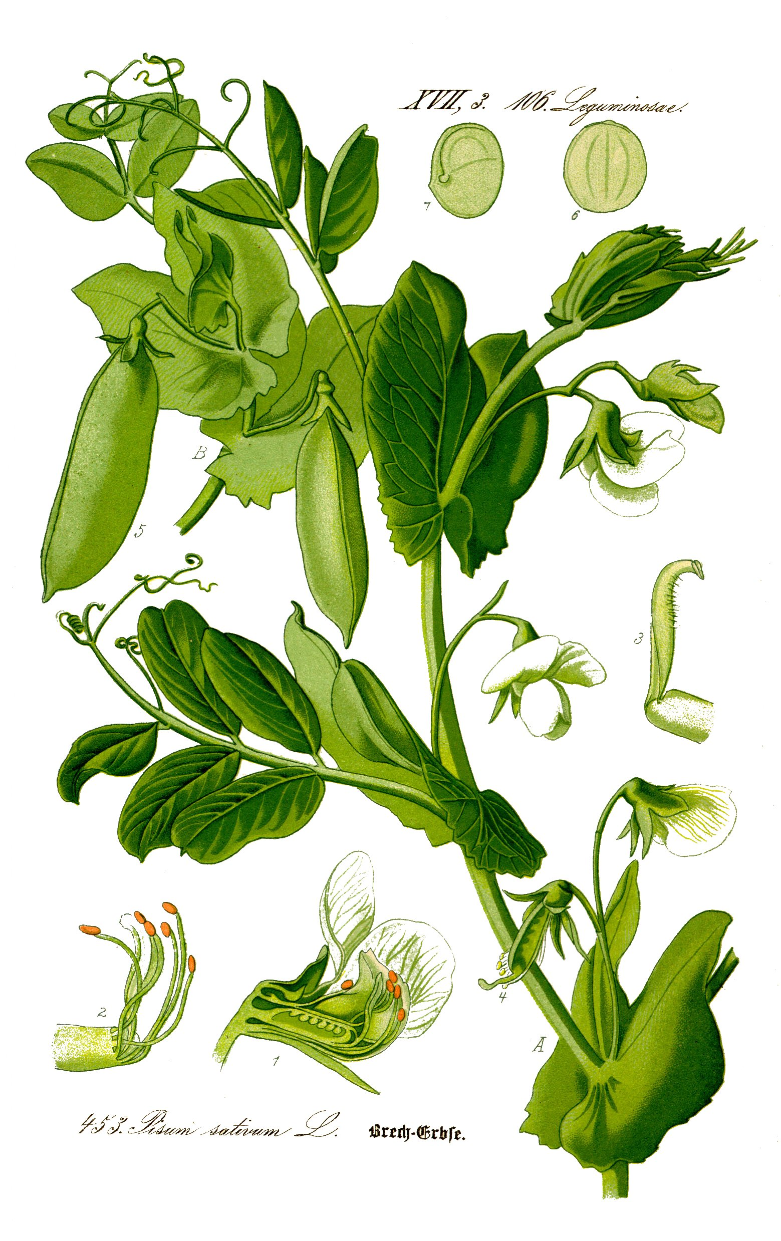 Name Pisum sativum Family Fabaceae